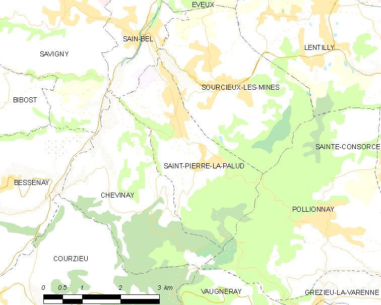 Map of French municipality